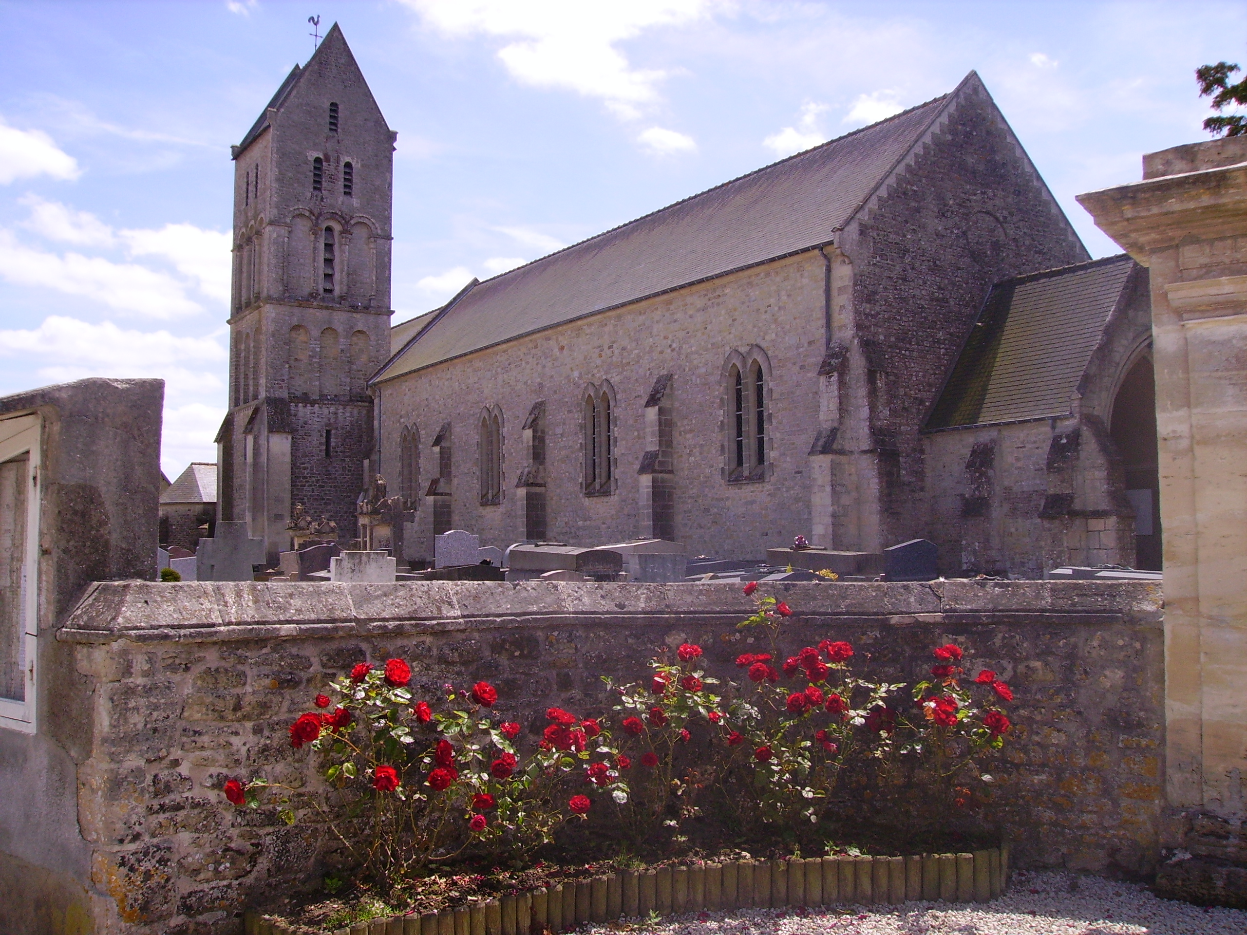 Church of Longueville (14)